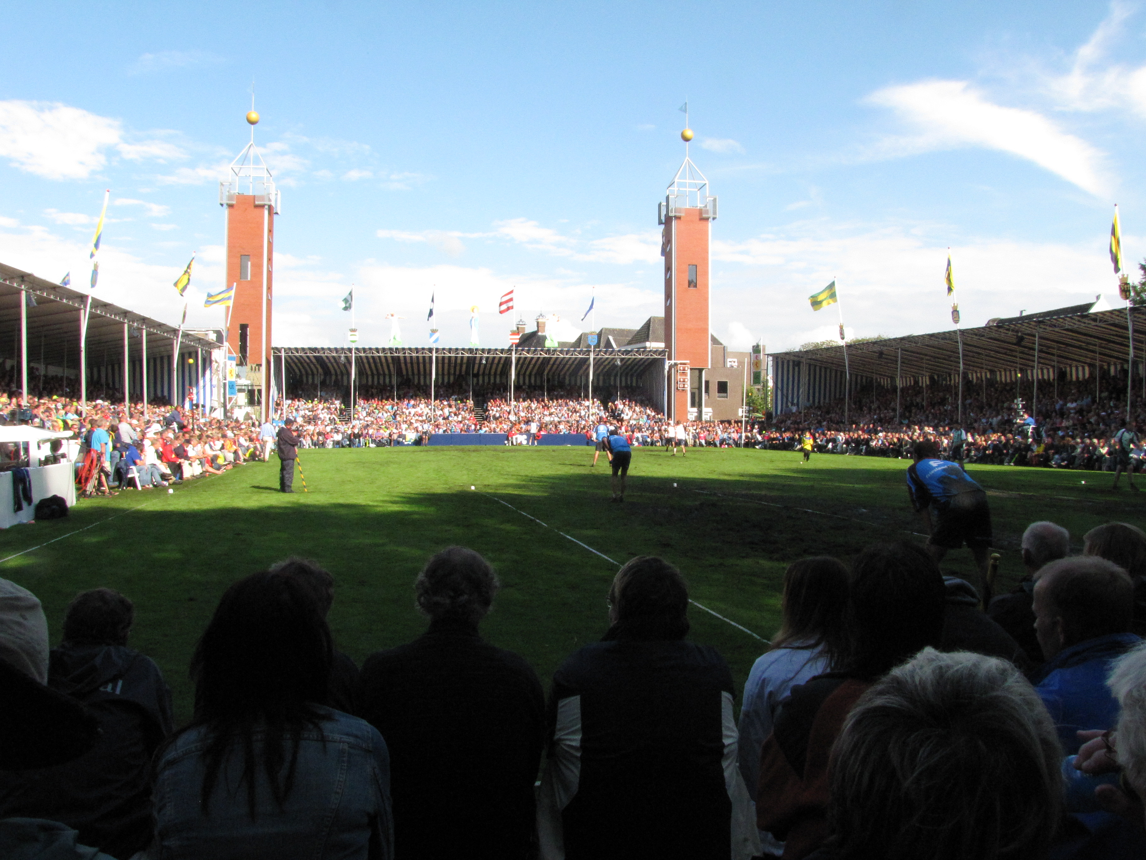 Oversight of the second round during the PC of 2010